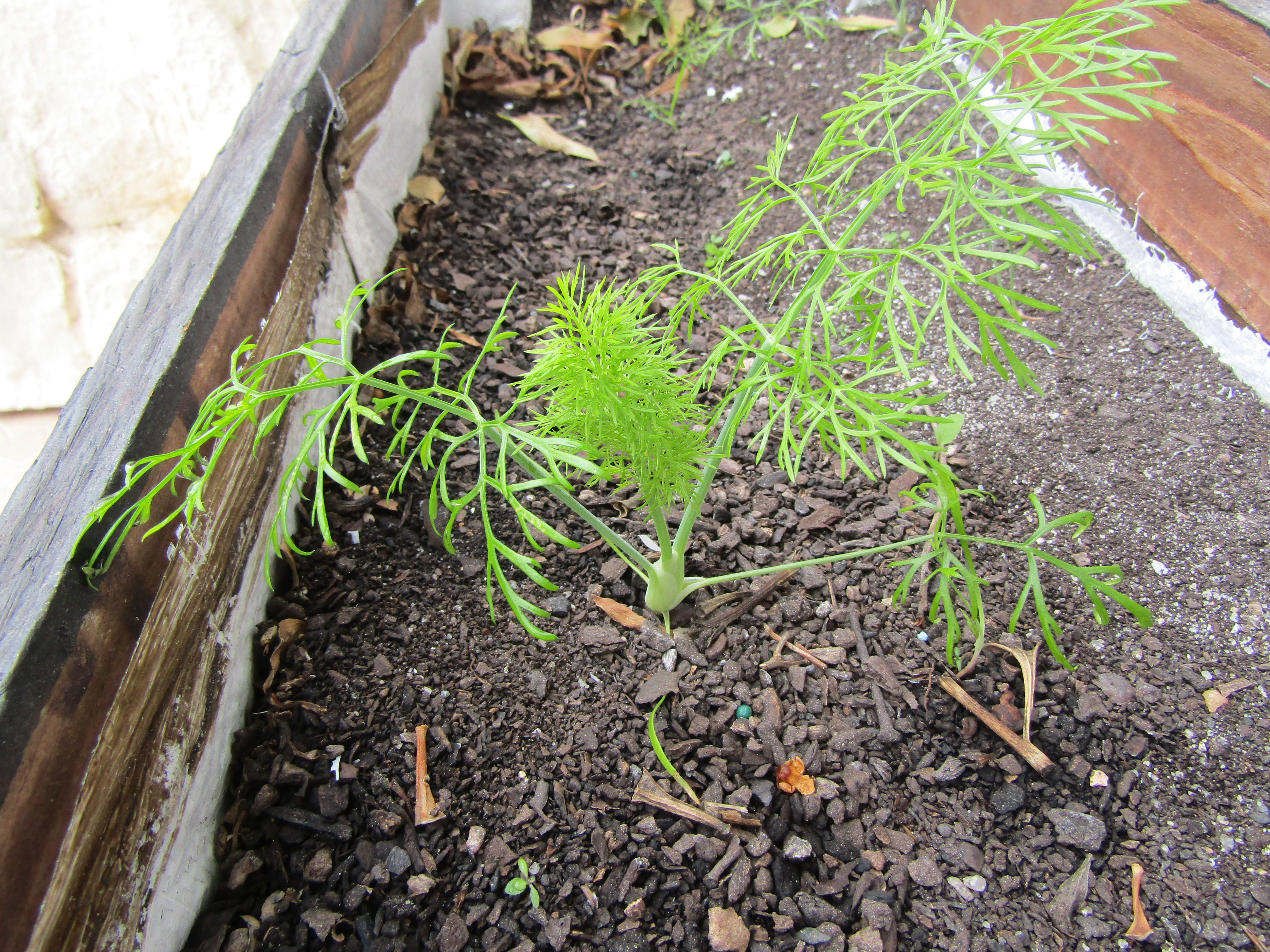 A container grown Fennel plant located in a garden in the Urbanização Jacarandá which is in the neighbourhood of Areias de São João within the city of Albufeira, Algarve, Portugal.